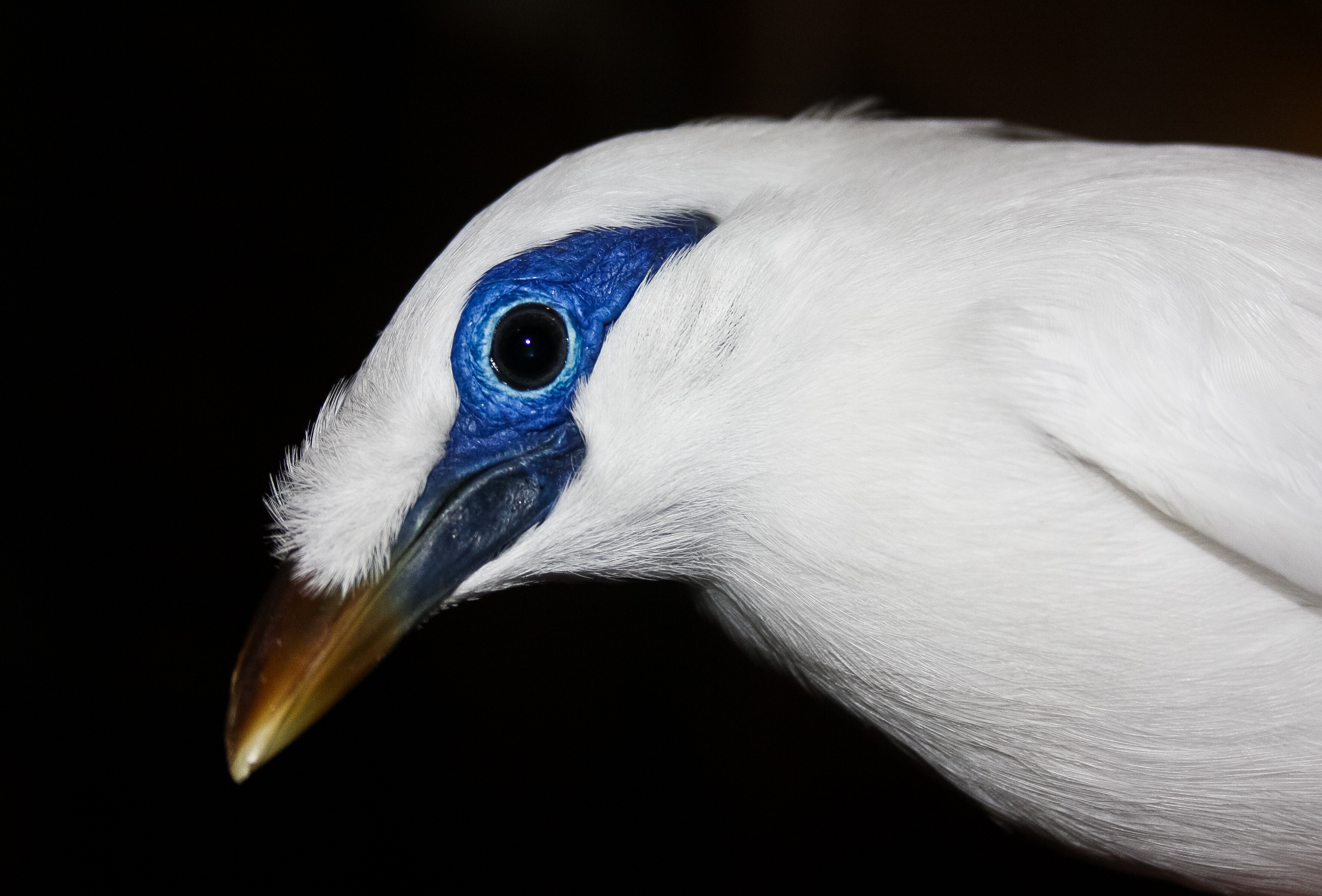 Bali myna in Pragaue Zoo